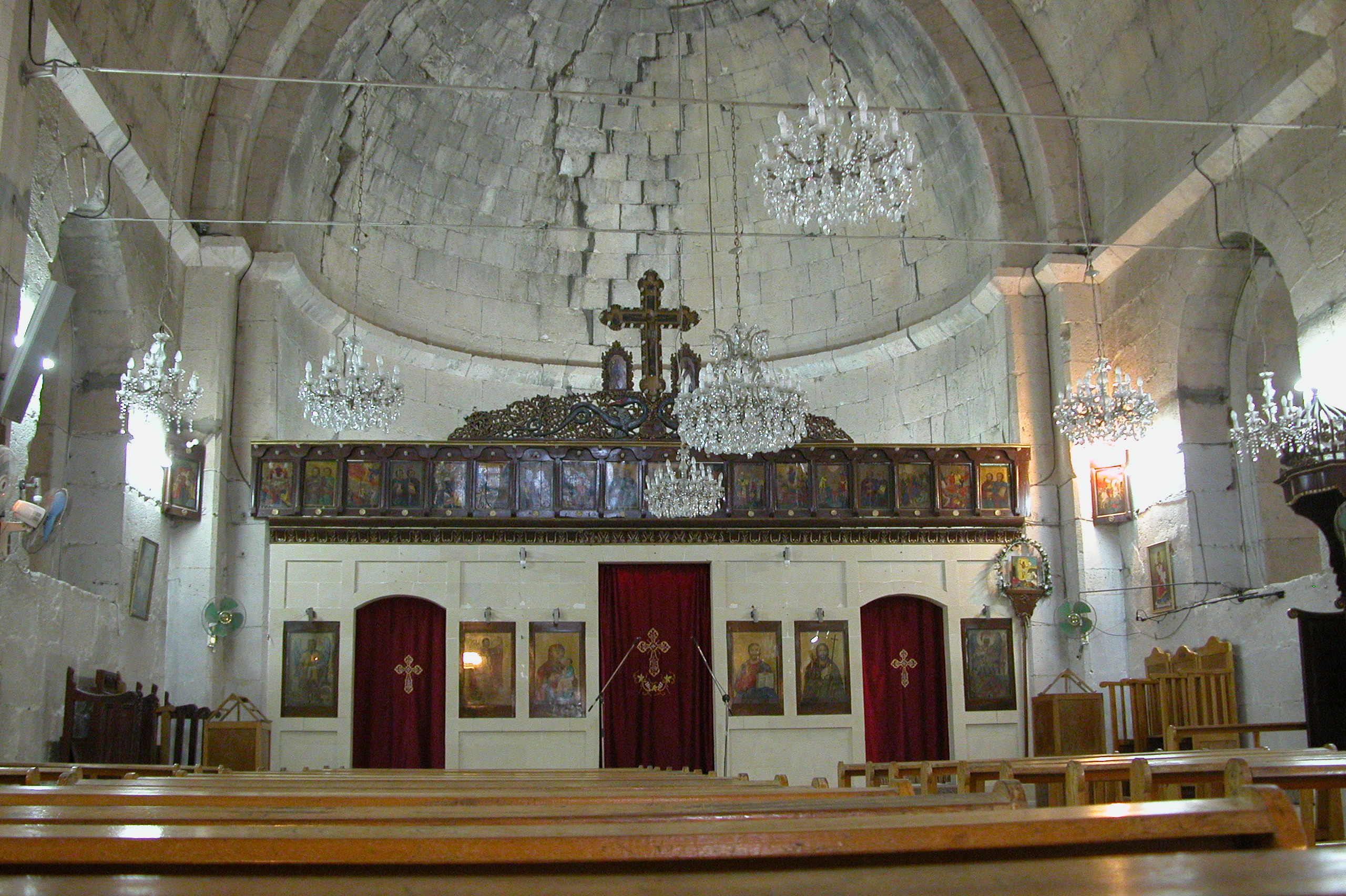 St. Michael's Chapel inside Chastel Blanc, Safita, Syria